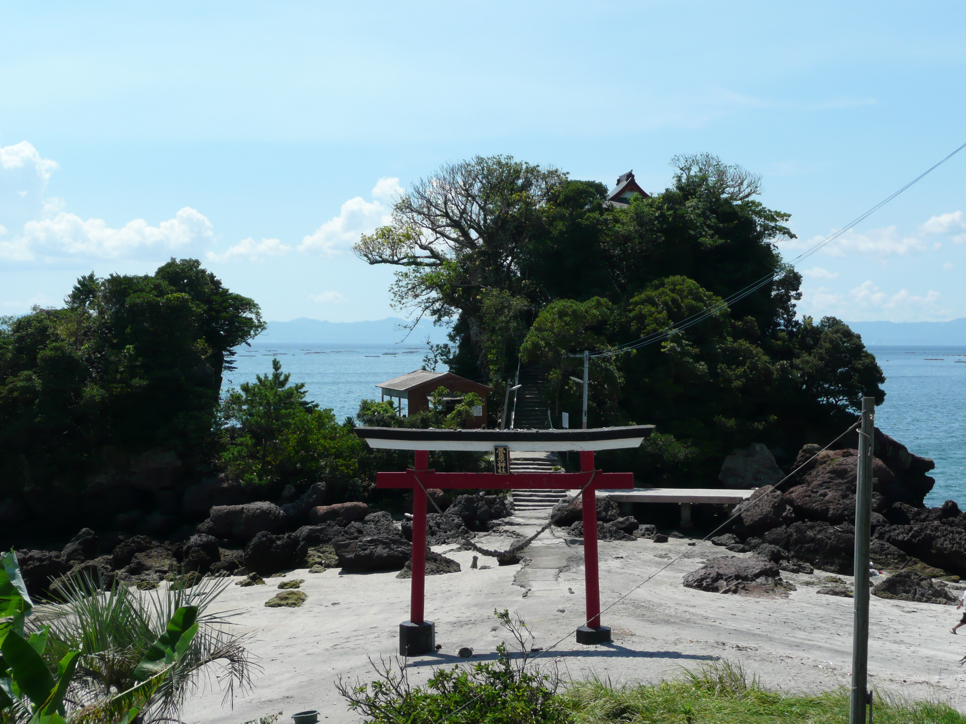 Arahira Jinja (Kanoya City, Kagoshima, Japan)